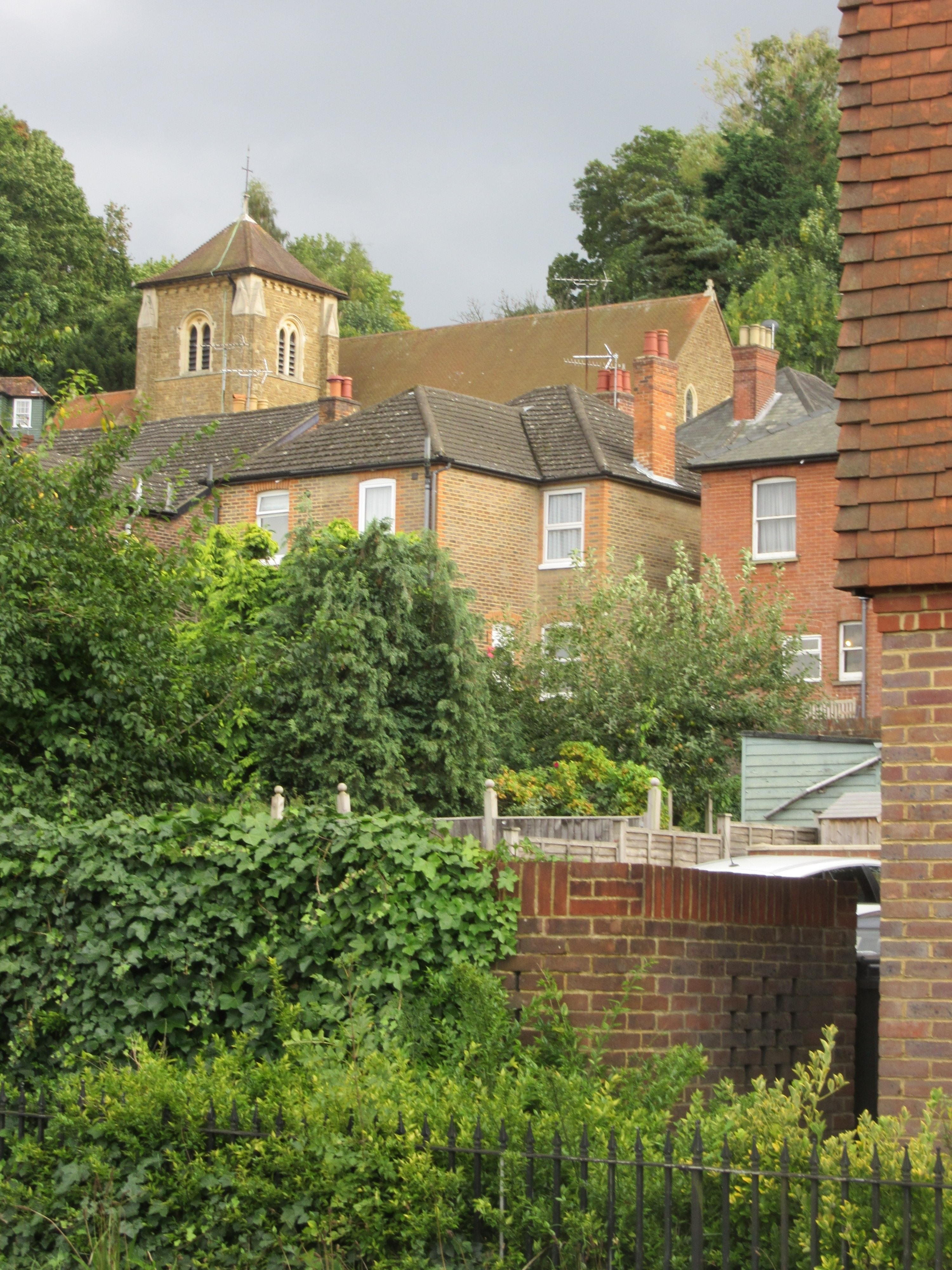 St Edmund King and Martyr's Church, Croft Road, Godalming, Borough of Waverley, Surrey, England. The Roman Catholic parish church of Godalming. This southward view, taken from Flambard Way, shows how the church overlooks the town from its situation on a steeply sloping hillside.